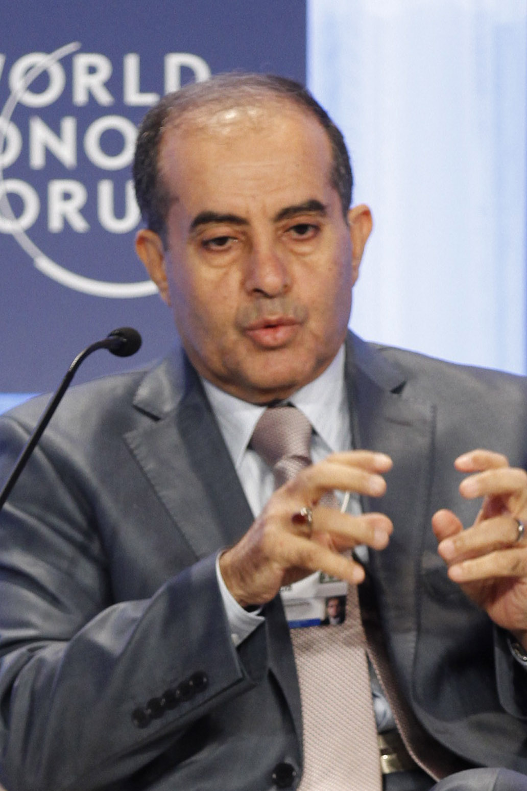 Cropped version of Mahmoud Jibril - World Economic Forum Special Meeting on Economic Growth and Job Creation in the Arab World.jpg for Libyan General National Congress election, 2012 infobox